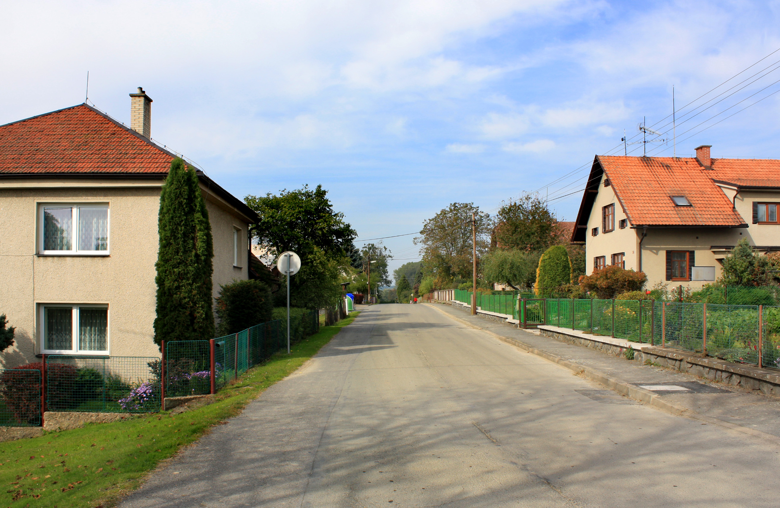 West part of Borovnice, Czech Republic